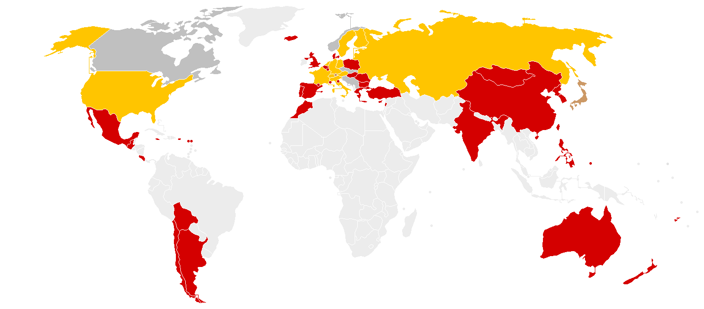 Countries with at least one gold medal Countries with at least one silver medal Countries with at least one bronze medal Countries that didn't get any medal Countries that did not participate